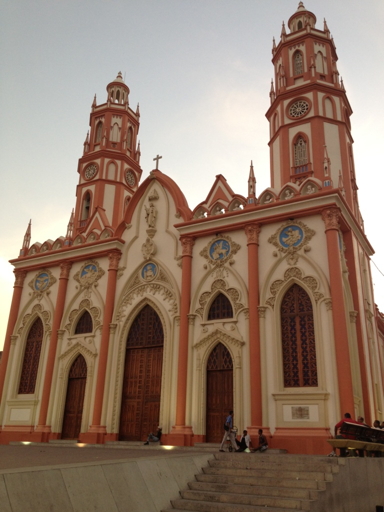 San Nicolas de Tolentino church